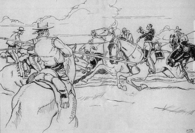 Captain Archibald Gillespie of the Marines was attacked by lancers, front and rear, at San Pascual, ink drawing by Arman Manookian, Honolulu Academy of Arts